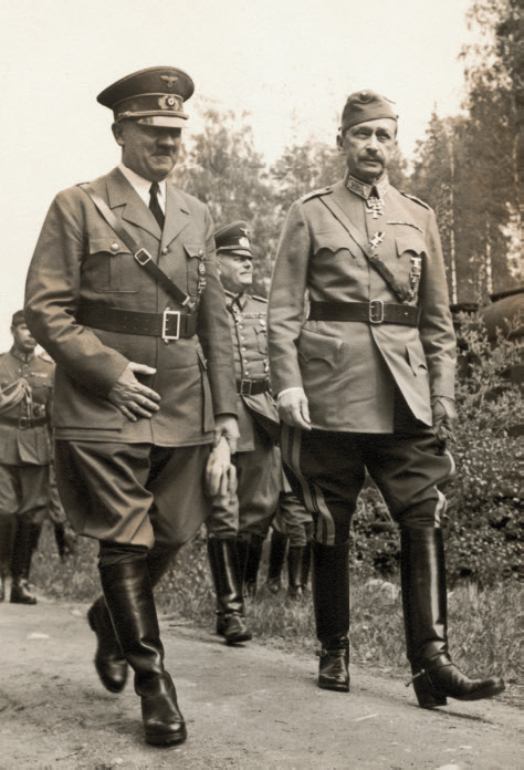 Hitler in Finland for Mannerheim's 75 birthday (4th June 1942)